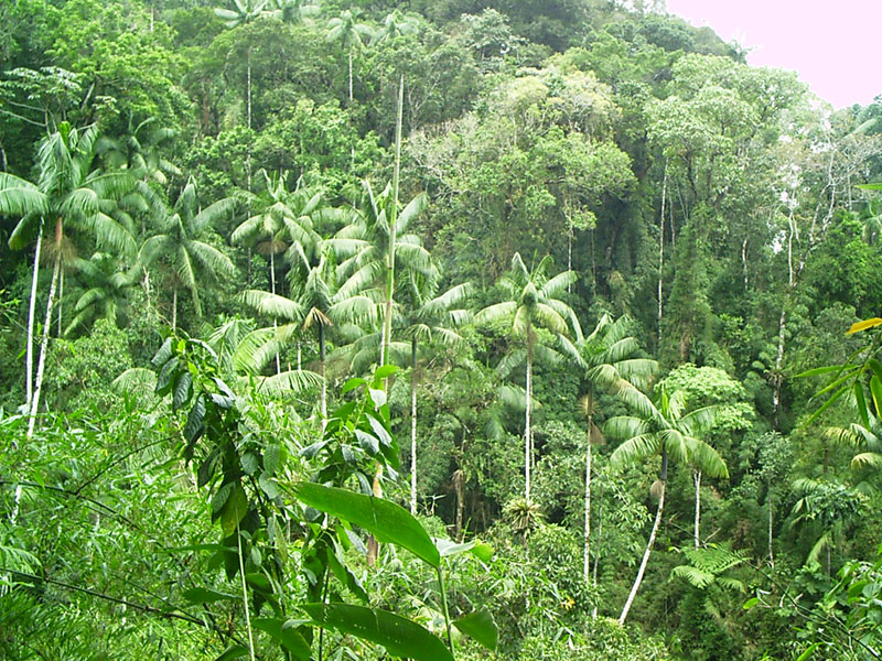 Image in Itatiaia National Park, with native palms in Atlantic Forest habitat - Southeast Brazil. I took this image in 2000.